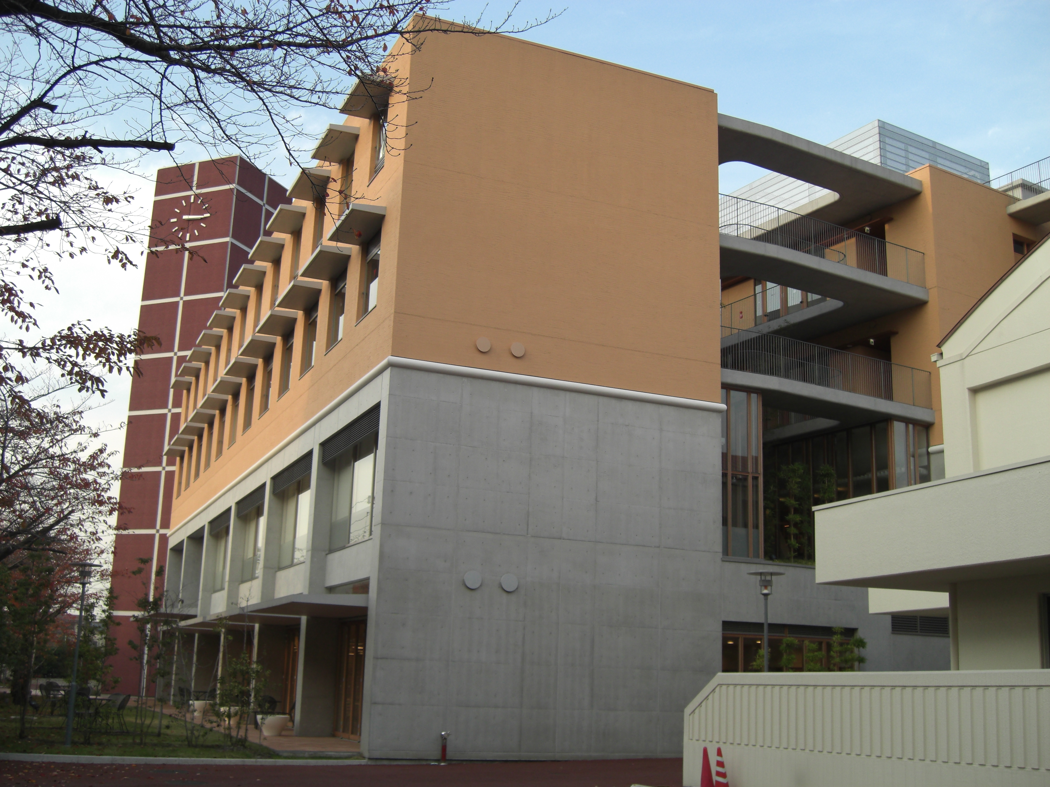 Tokyo Future University